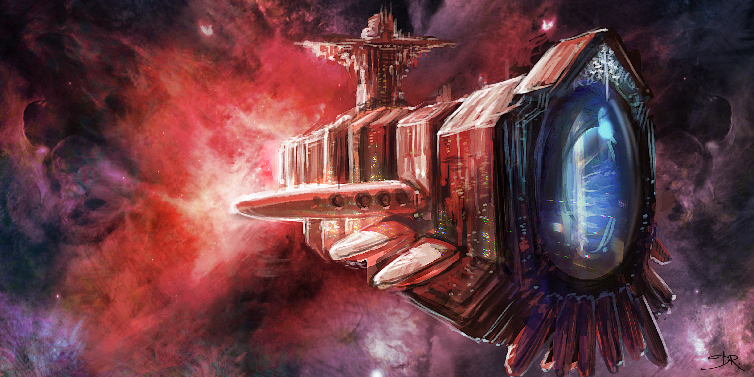 Artwork done by David Revoy for the preproduction of the fourth open movie of the Blender Foundation 'Tears of Steel' ( project Mango ).